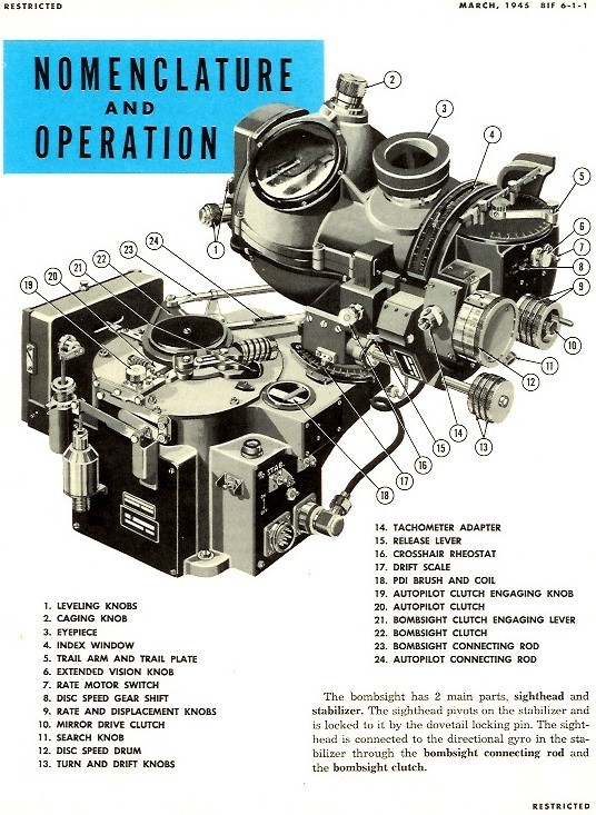 Here is an excerpt from the Bombardier's Information File (BIF) that describes the components and controls of the Norden Bombsight.